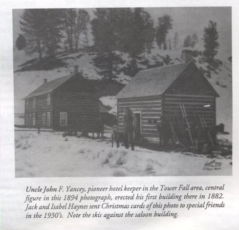 Yancey's Pleasant Valley Hotel, Yellowstone National Park, 1894